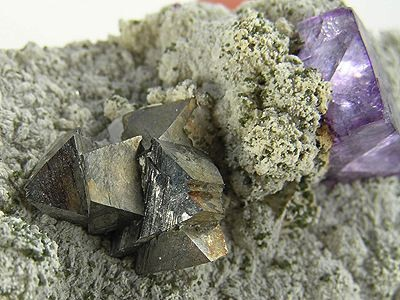 Fluorite, Arsenopyrite Locality: Yaogangxian Mine, Yizhang County, Chenzhou Prefecture, Hunan Province, China (Locality at ) Size: 5.4 x 3.9 x 2.5 cm. This association is of course common from the Yaogangxian, but I have never seen one quite like this. Where you will sometimes see purple fluorites and arsenopyrites on jumbly clusters of quartz, here a gemmy fluorite and a cluster of sharp arsenopyrites sit side-by-side on a clean matrix. A unique specimen even for this prolific locality!